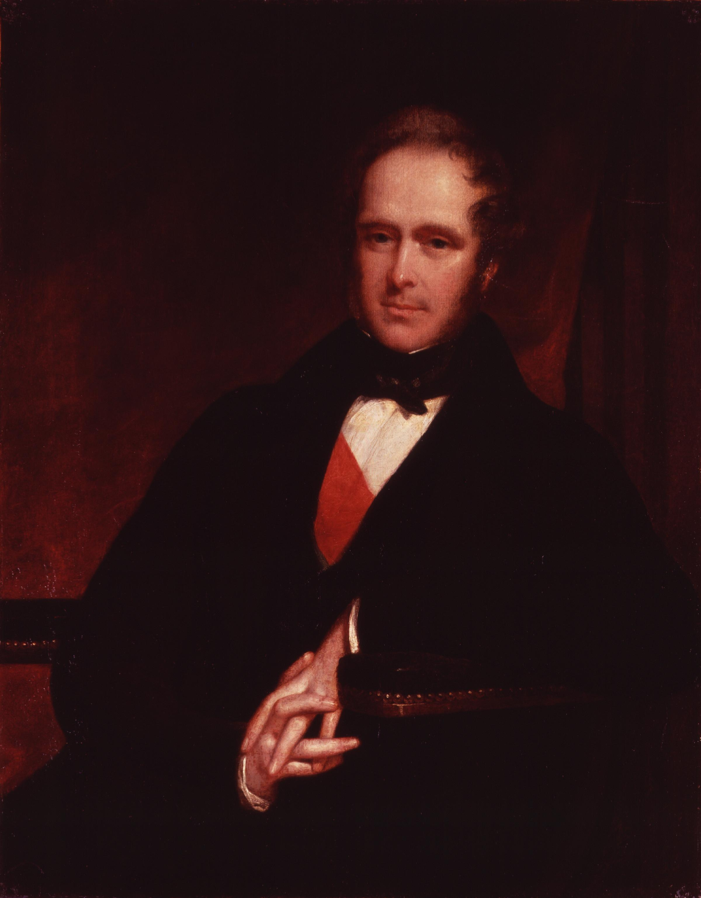 Henry John Temple, 3rd Viscount Palmerston, by John Partridge (died 1872), given to the National Portrait Gallery, London in 1896. All images in this batch have been confirmed as author died before 1939 according to the official death date listed by the NPG.